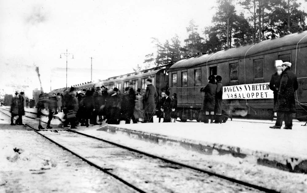 Vasaloppet 1922, photograph by Dagens Nyheter (DN).